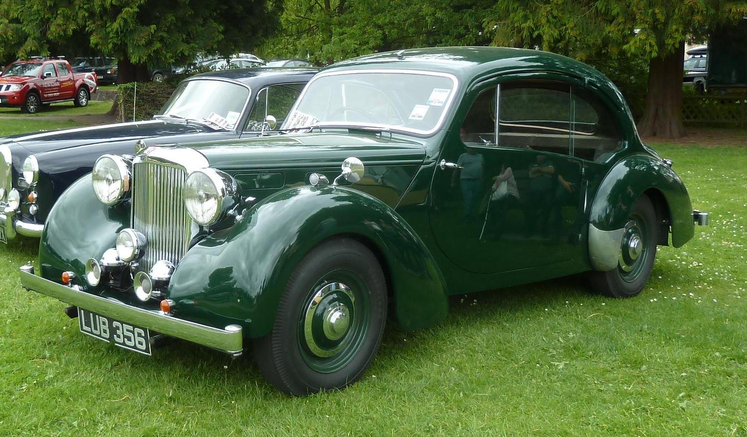 Alvis TA14 pillarless Sports Saloon, with bodywork by Duncan, c. 1947. Only a couple of dozen made, only a handful survive. LUB 356 Chassis 21644 Duncan body number AS13 left Alvis factory 10 December 1947 Abergavenny steam rally, 2015.